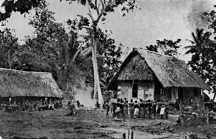 First House of George Brown in Port Hunter, Duke of York Island, Papua New Guinea. He lived ther form 1875-1881